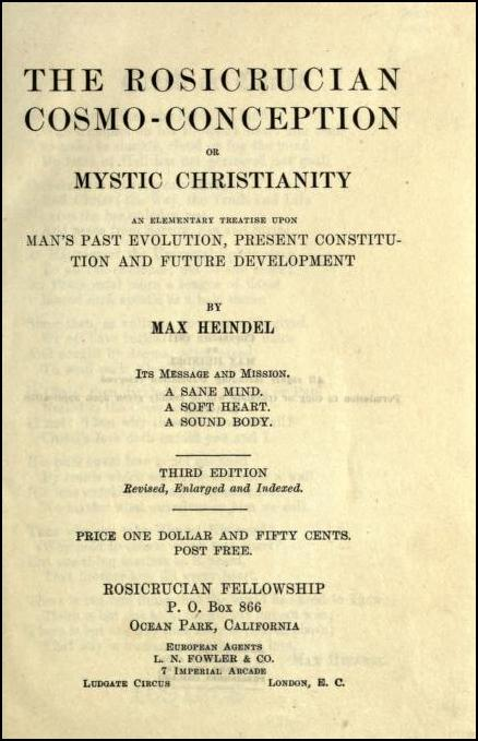 Max Heindel's Book The Rosicrucian Cosmo-Conception. Title page to the third edition.